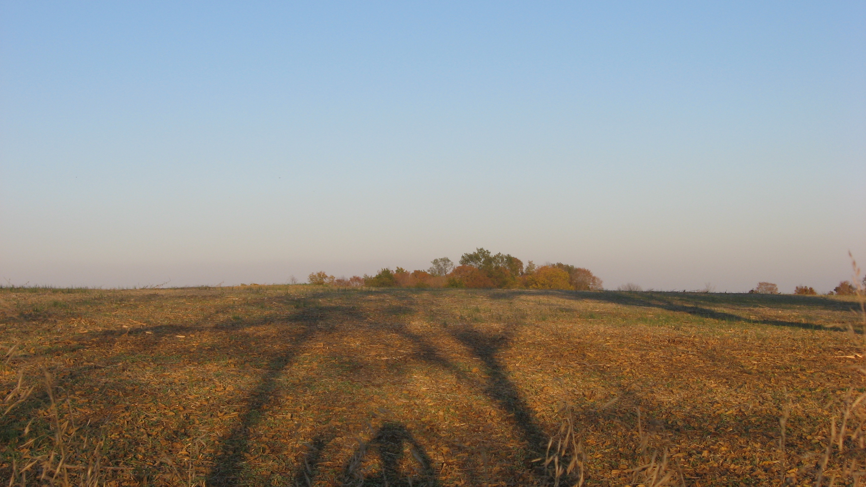 Western edge of the Bono Archaeological Site, located on the eastern side of Bono-Tunnelton Road above the East Fork of the White River and one mile north of Bono in Bono Township, Lawrence County, Indiana, United States. Most of the field is a clam shell midden and thus a valuable archaeological site; it is listed on the National Register of Historic Places.